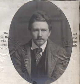 Ezra Pound, U.S. passport photo